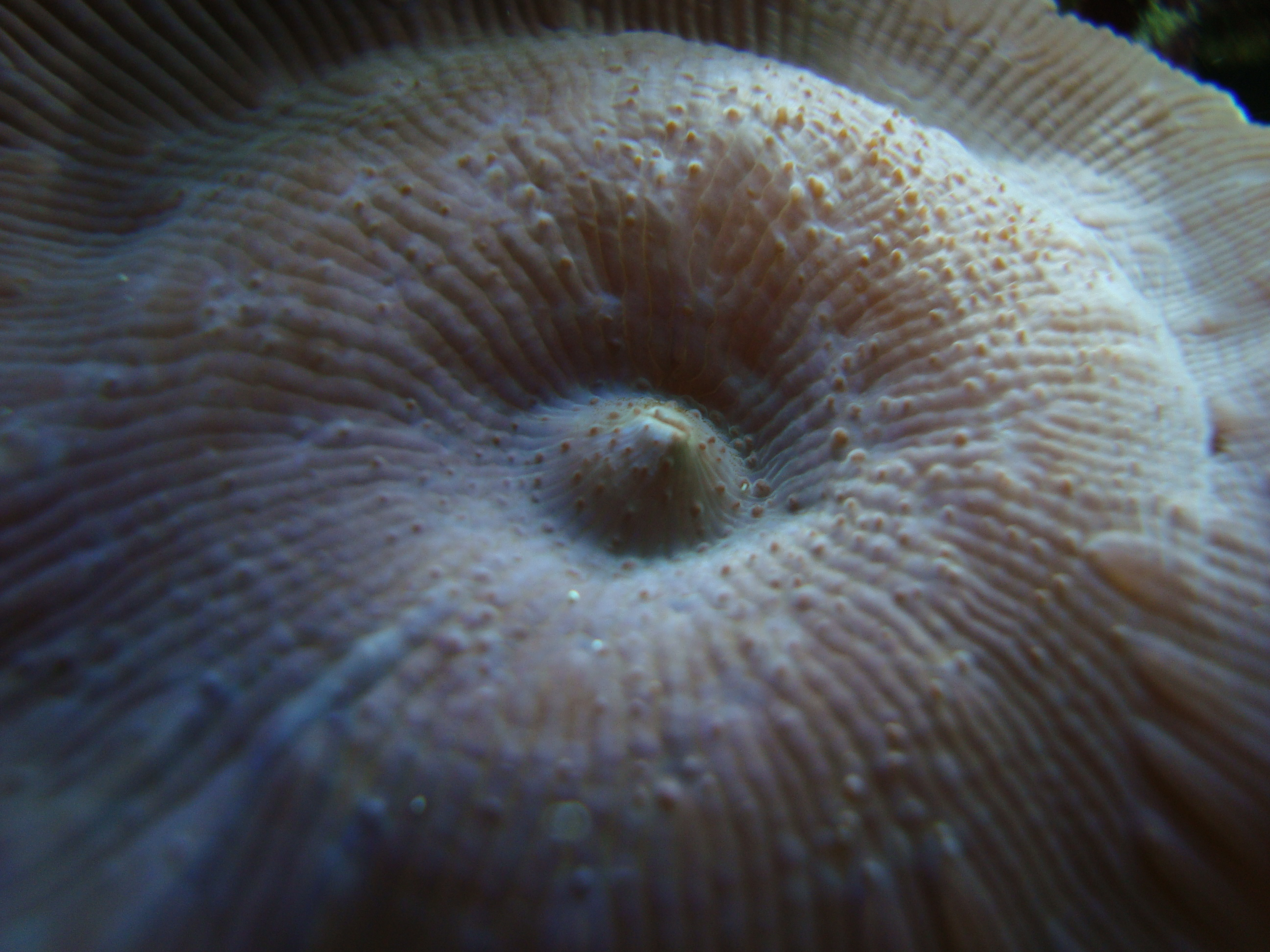 Macro of an Actinodiscus at the Vancouver Aquarium